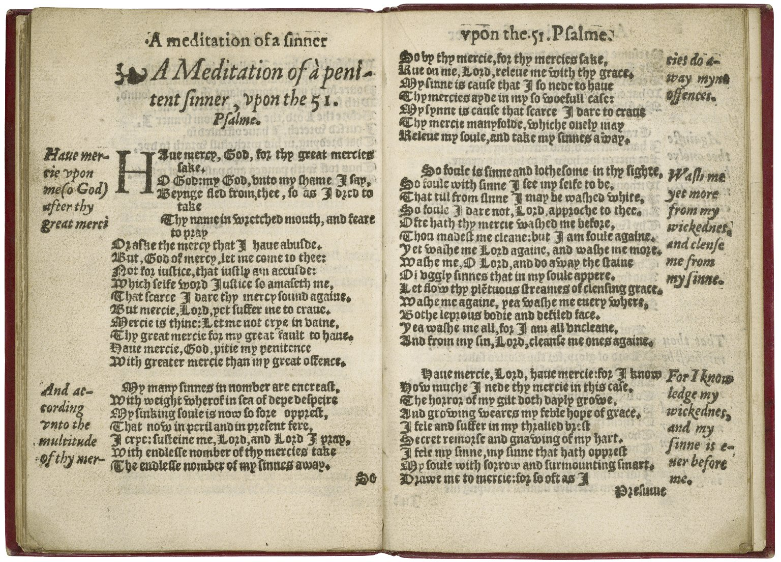 Several of the sonnets from Anne Locke's A Meditation of a Penitent Sinner, though this edition does not credit her.